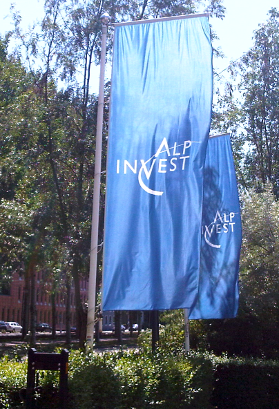 AlpInvest offices in Amsterdam